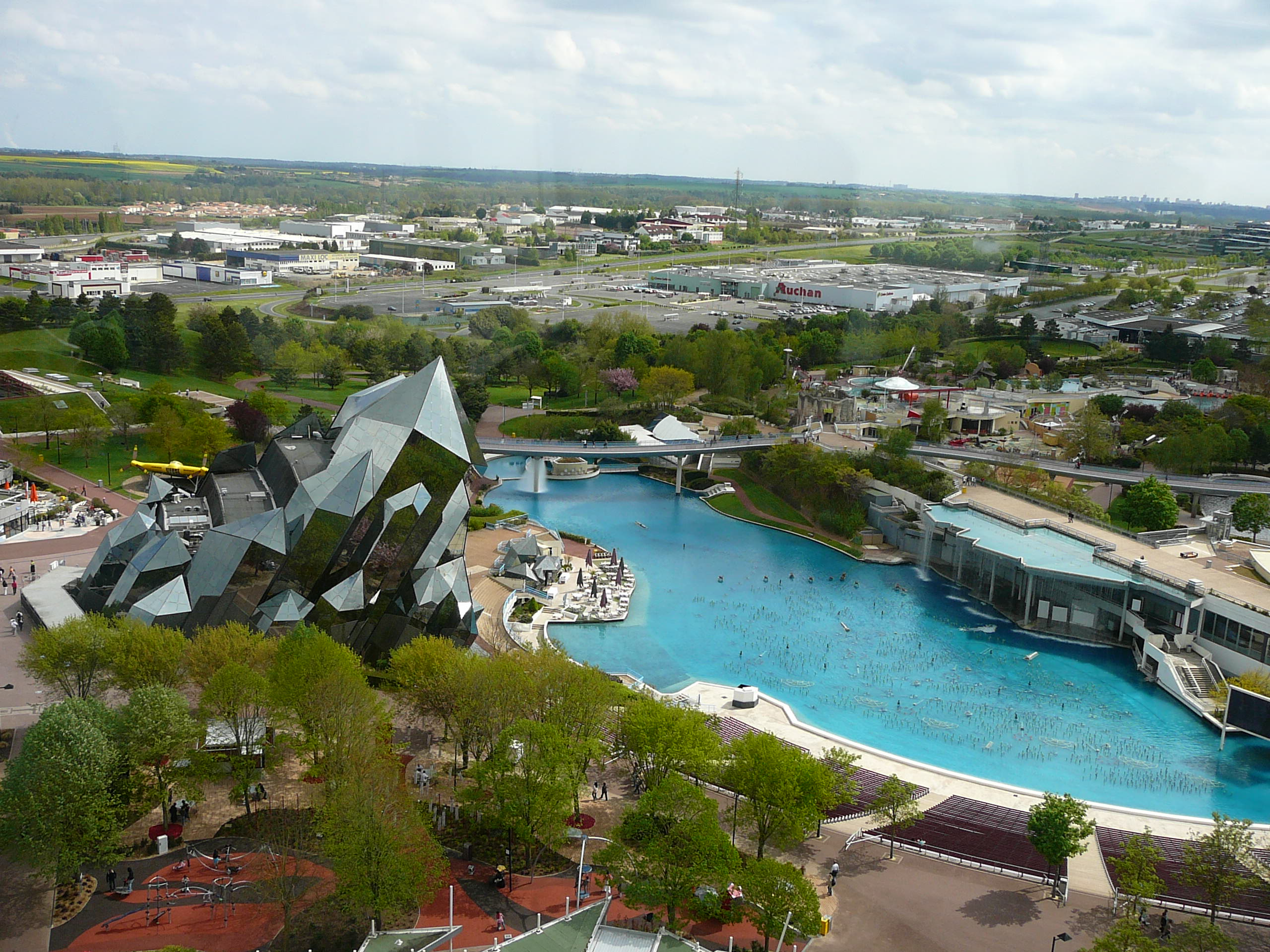 Futuroscope from the tower